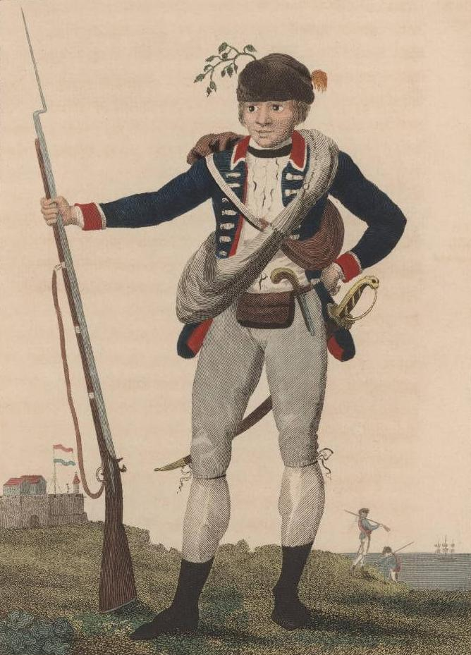 'A private Marine of Col. Fourgeoud's Corps', engraving from John Gabriel Stedman's The Narrative of a Five Years Expedition against the Revolted Negroes of Surinam (1796)